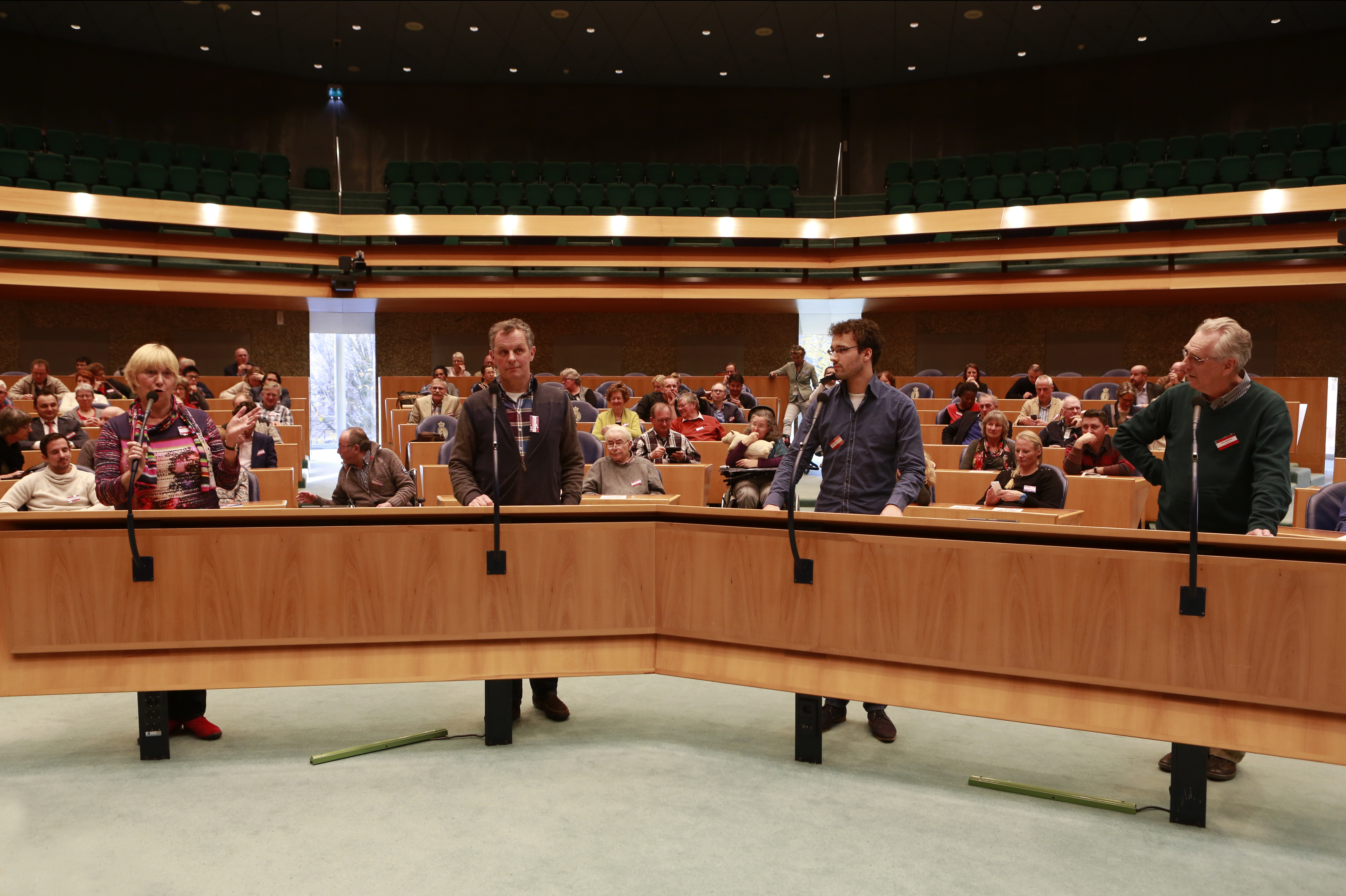 Op 28 november verwelkomden wij in de Tweede Kamer onze nieuwe leden. Interruptiemicrofoons